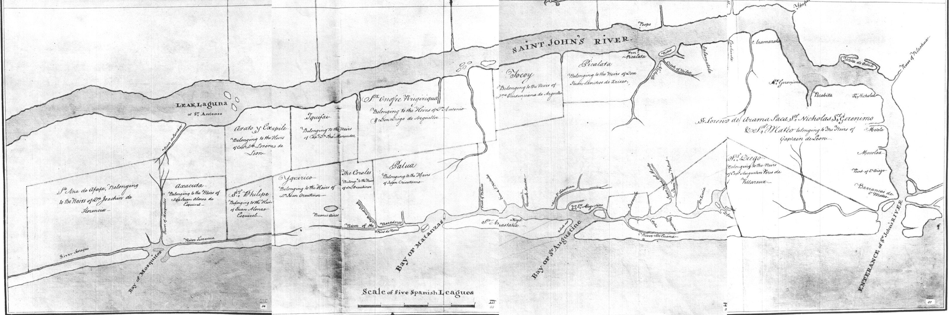 Map of part of East Florida from the St. Johns River to the Bay of Mosquitos, showing names of proprietors of estates. Drawn from the original plan of John Gordon, and given to Governor Grant by James Moncrief, Engineer. 1764